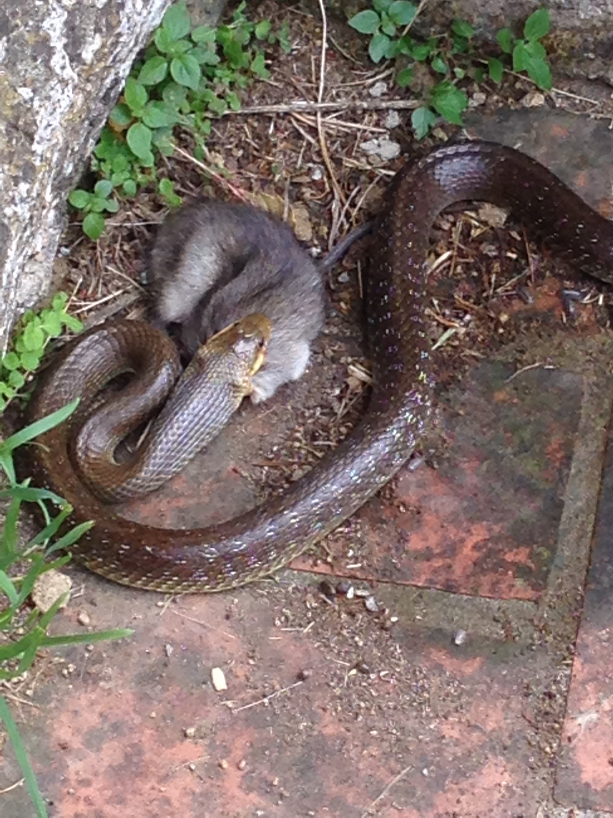 Classic example of an Aesculapian snake eating a mammal